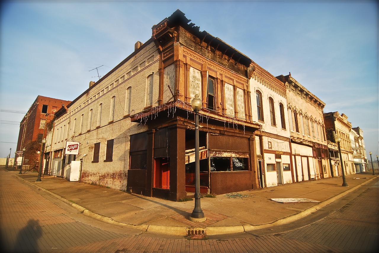 Downtown Cairo: buildings (later demolished) in 700 block of Commercial Avenue at west corner with 8th Street